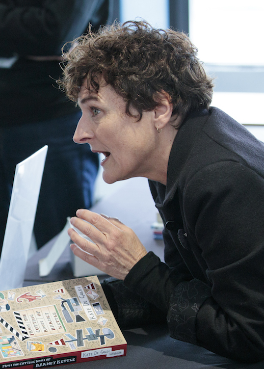 Kate De Goldi at the WORD Christchurch festival, 2016